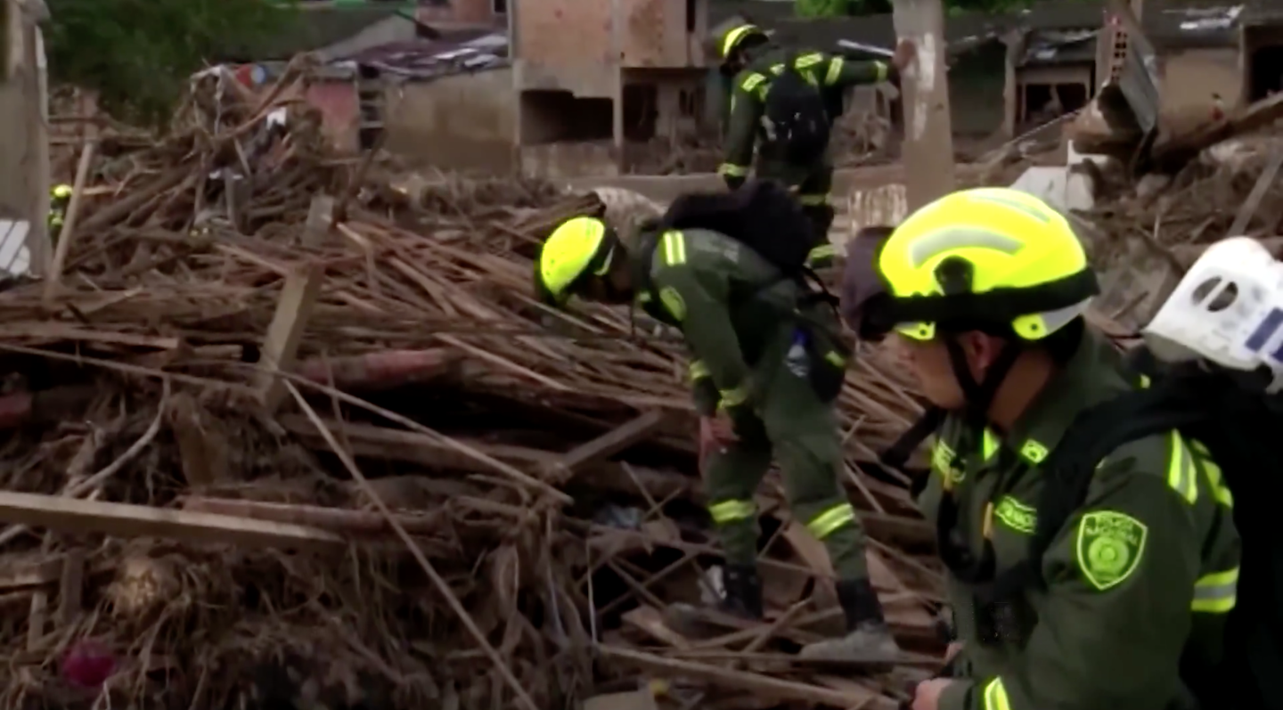 Rescuers searching for potential survivors in debris left behind by catastrophic flash flooding and mudslides in Mocoa